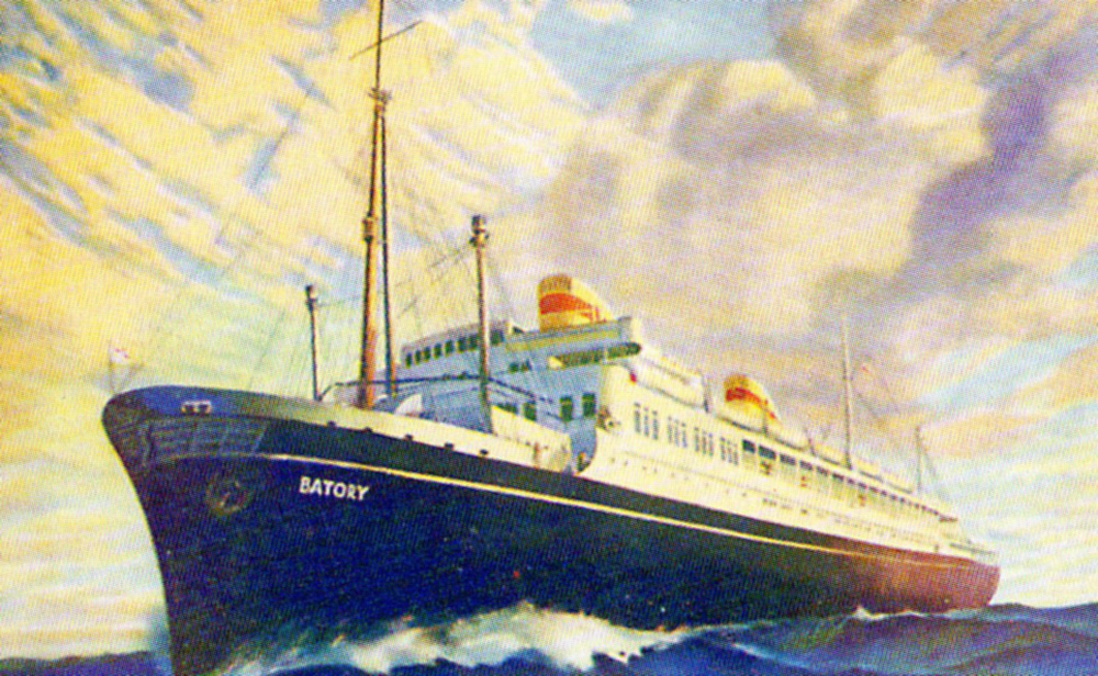 Old Postcard showing MS Batory